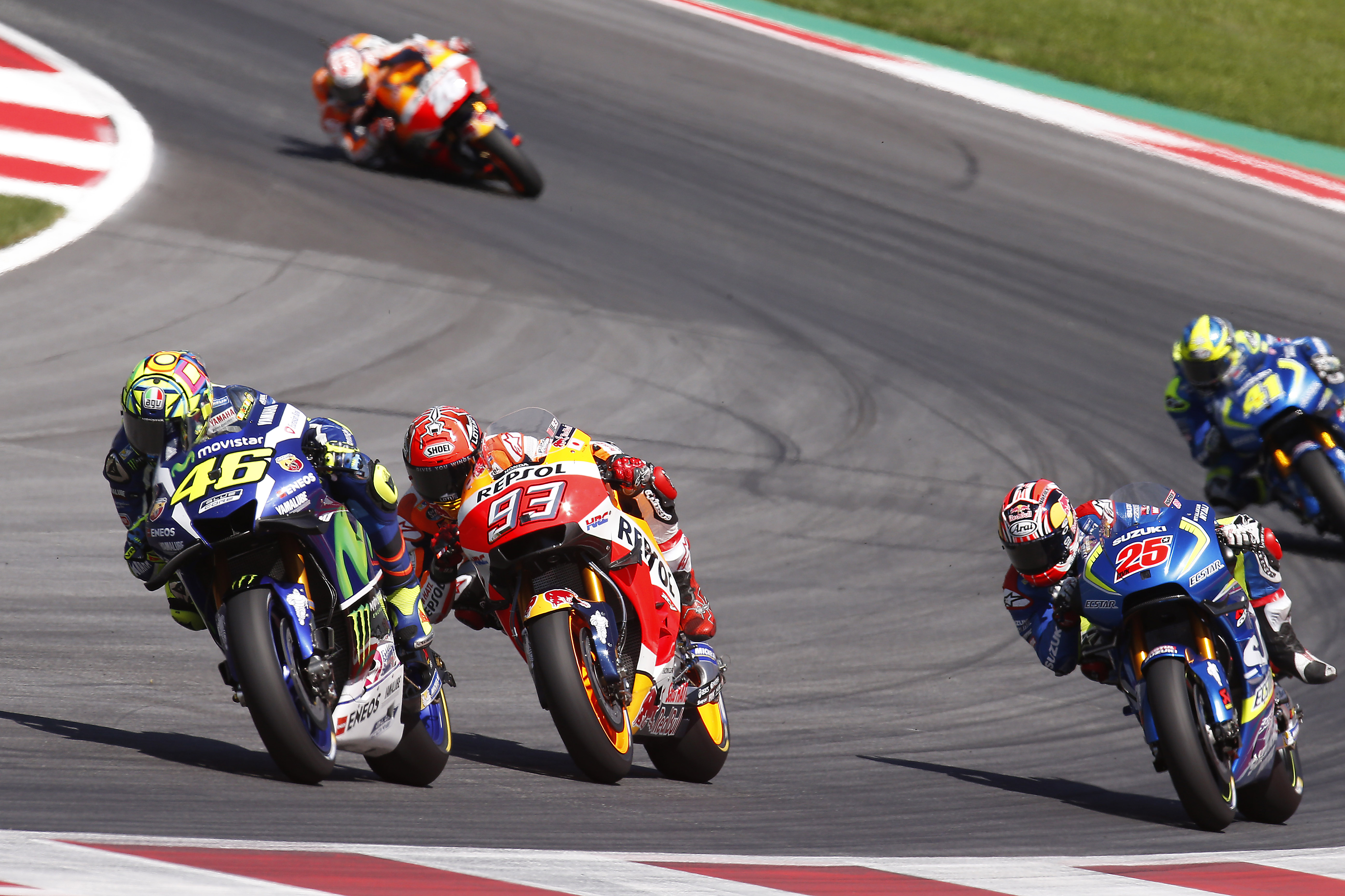 Marc Marquez, Valentino Rossi and Maverick Vinales during 2016 Austrian motorcycle Grand Prix